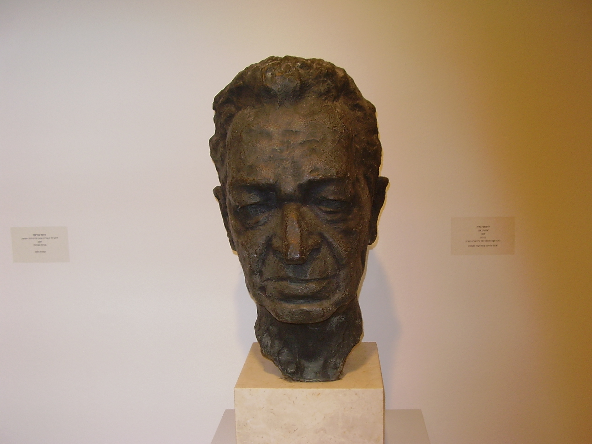 president izhak ben-zvi by batia lychanski